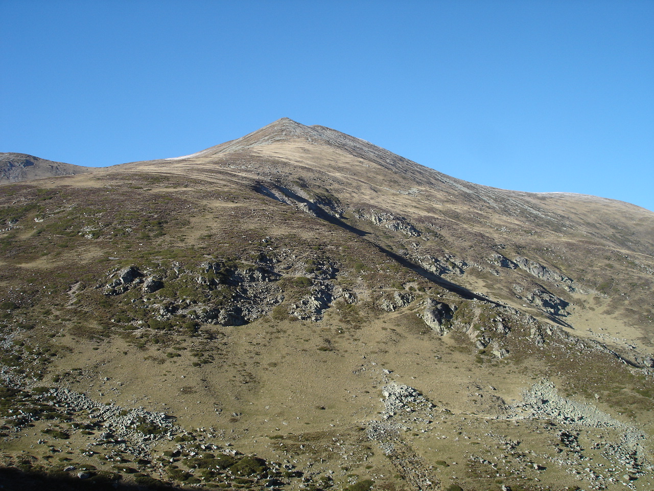 Kukjinagledski peak on Šar Mountain, Macedonia